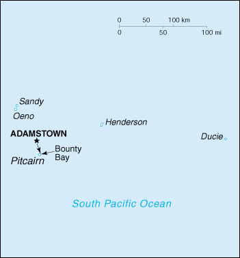 map of Pitcairn Islands (CIA Factbook) Category:Pitcairn Islands